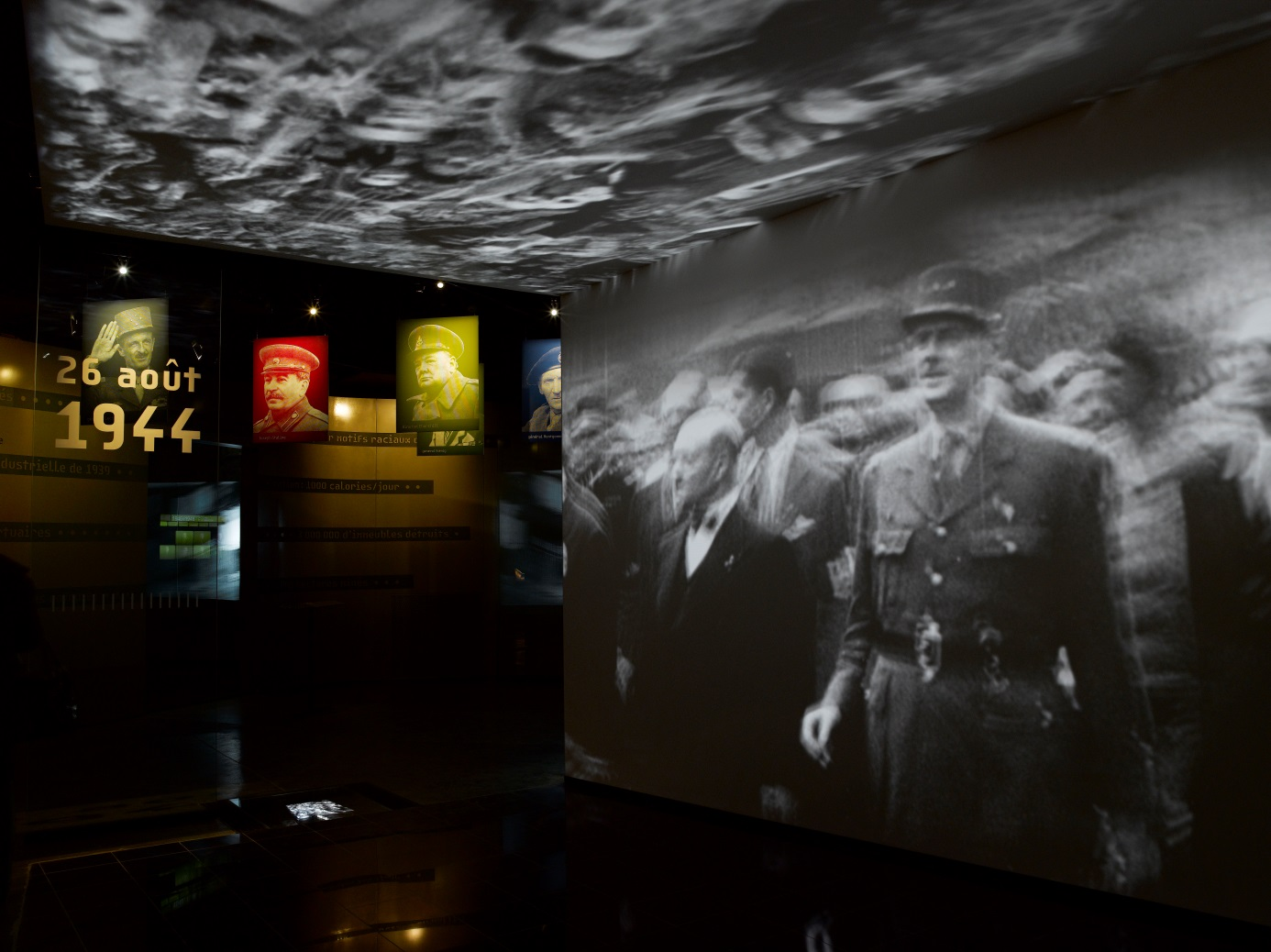 Historial Charles de Gaulle, Musée de l'Armée, Paris